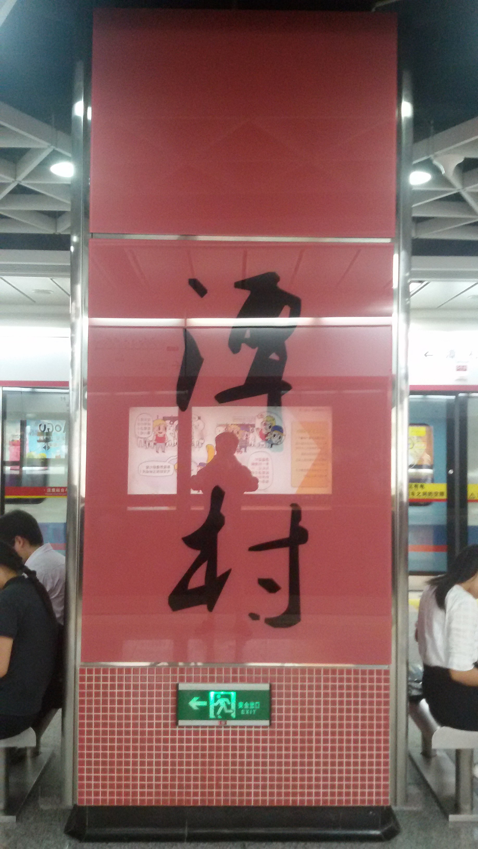 WORD on PILLAR for Tancun Station, Guangzhou Metro. 粵語: 廣州地鐵潭村站嘅柱上邊啲字